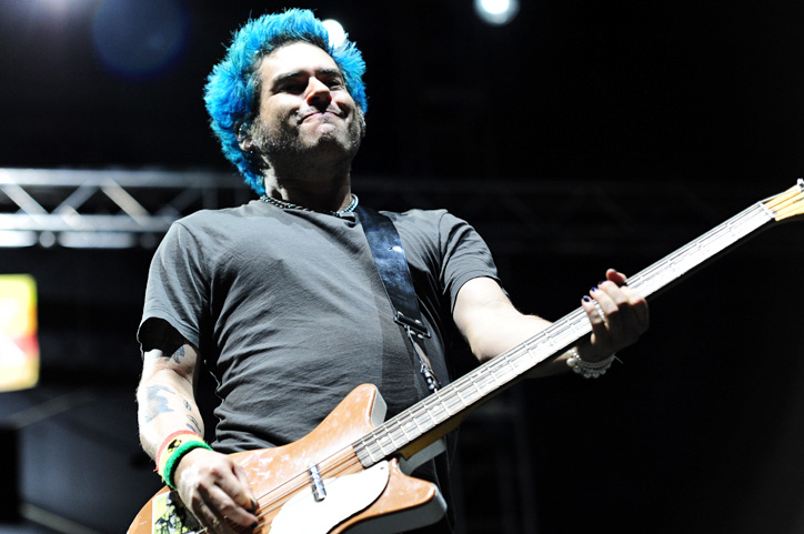 NOFX at the No Sleep Til Festival 2010